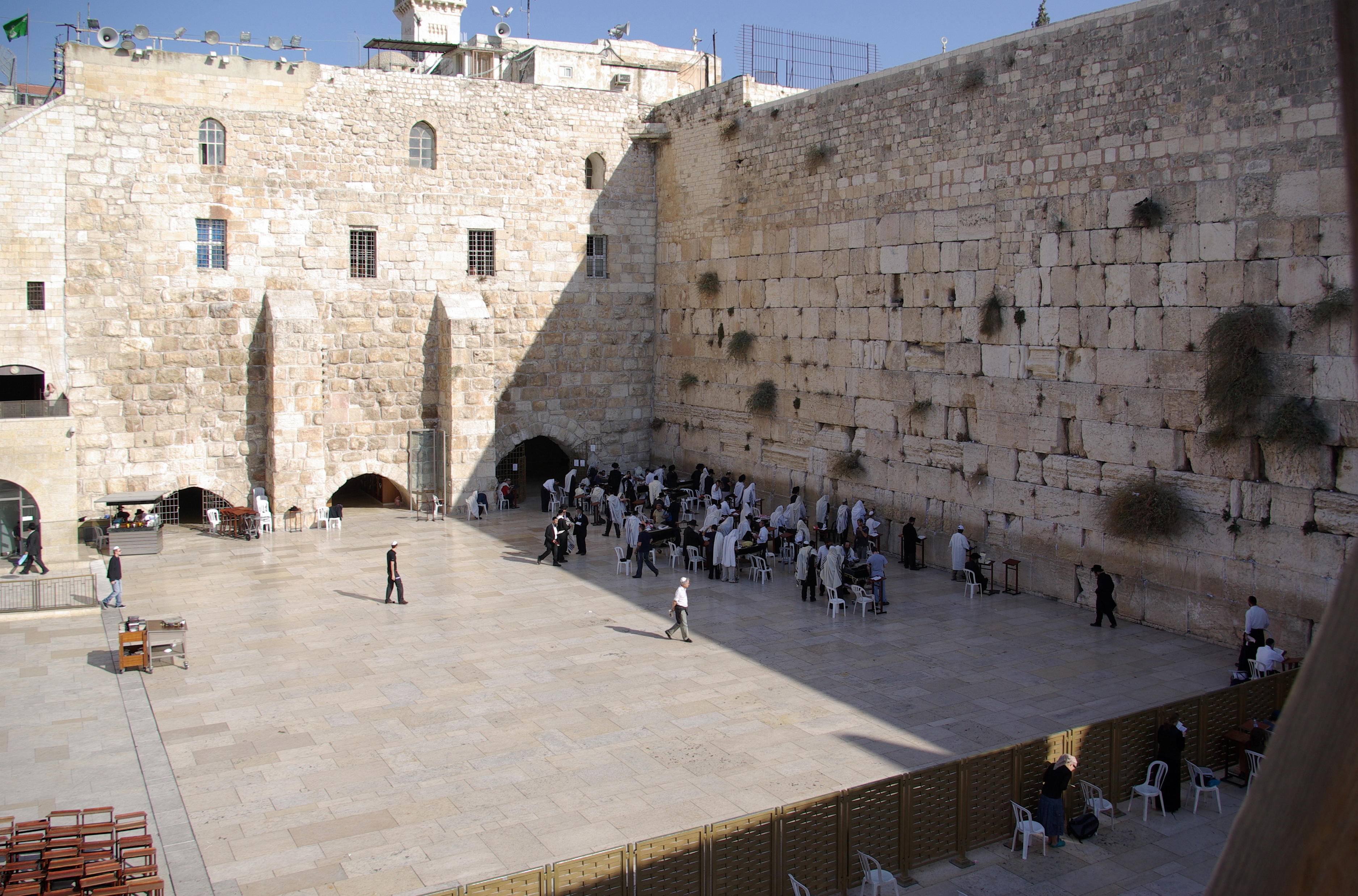 Jerusalem, Western Wall